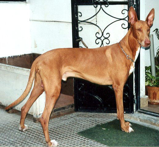 Kelb-tal Fenek (Pharaoh Hound according to FCI nomenclature), male, Ch. Ram Ahmar Tal-Wardija, owner Peter Gatt (Malta)